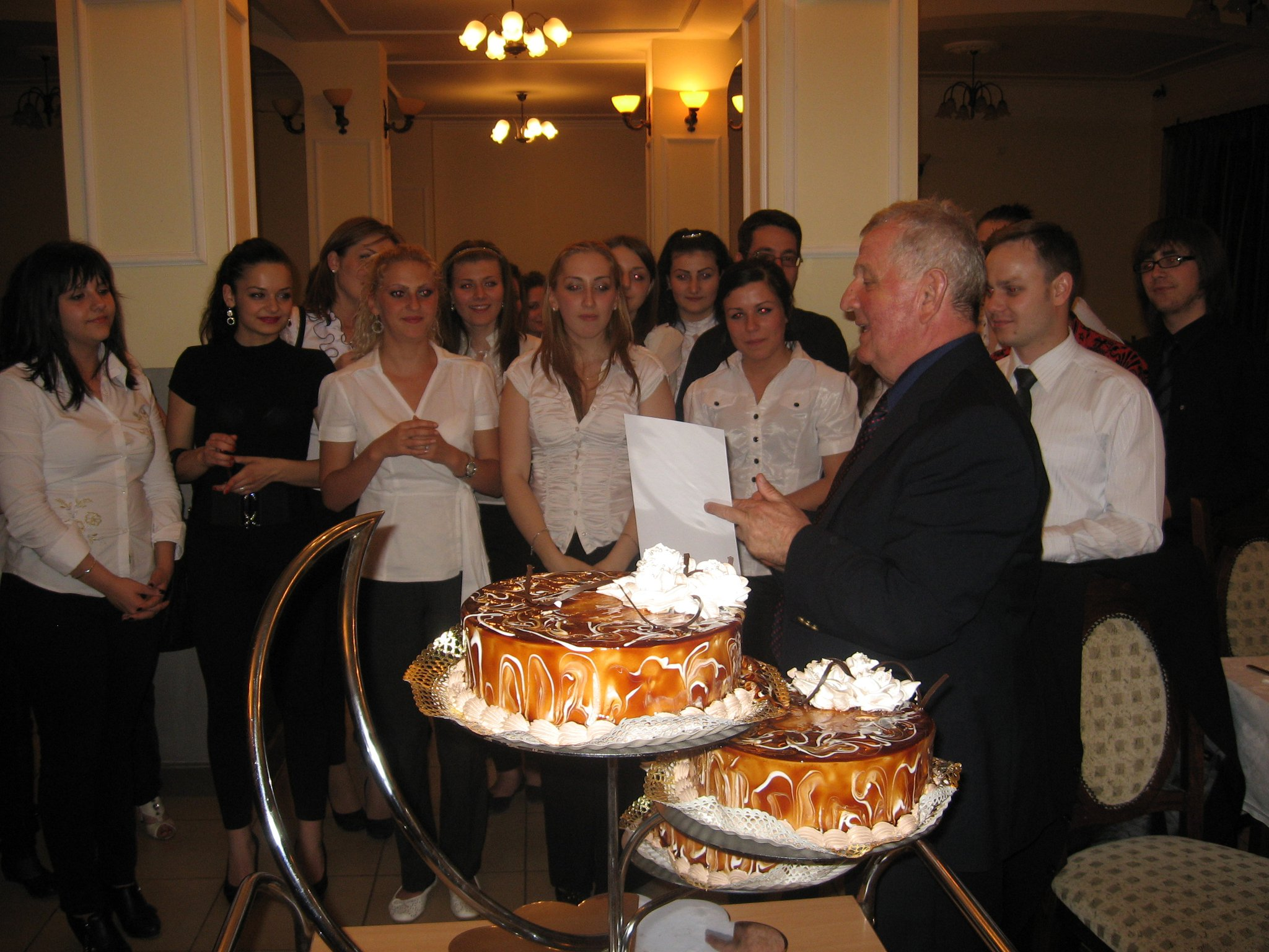 Camerata Academica Porolissensis – 40 years of activity, anniversary (19 may 2011), conductor Ioan Chezan în the center of image (profile)